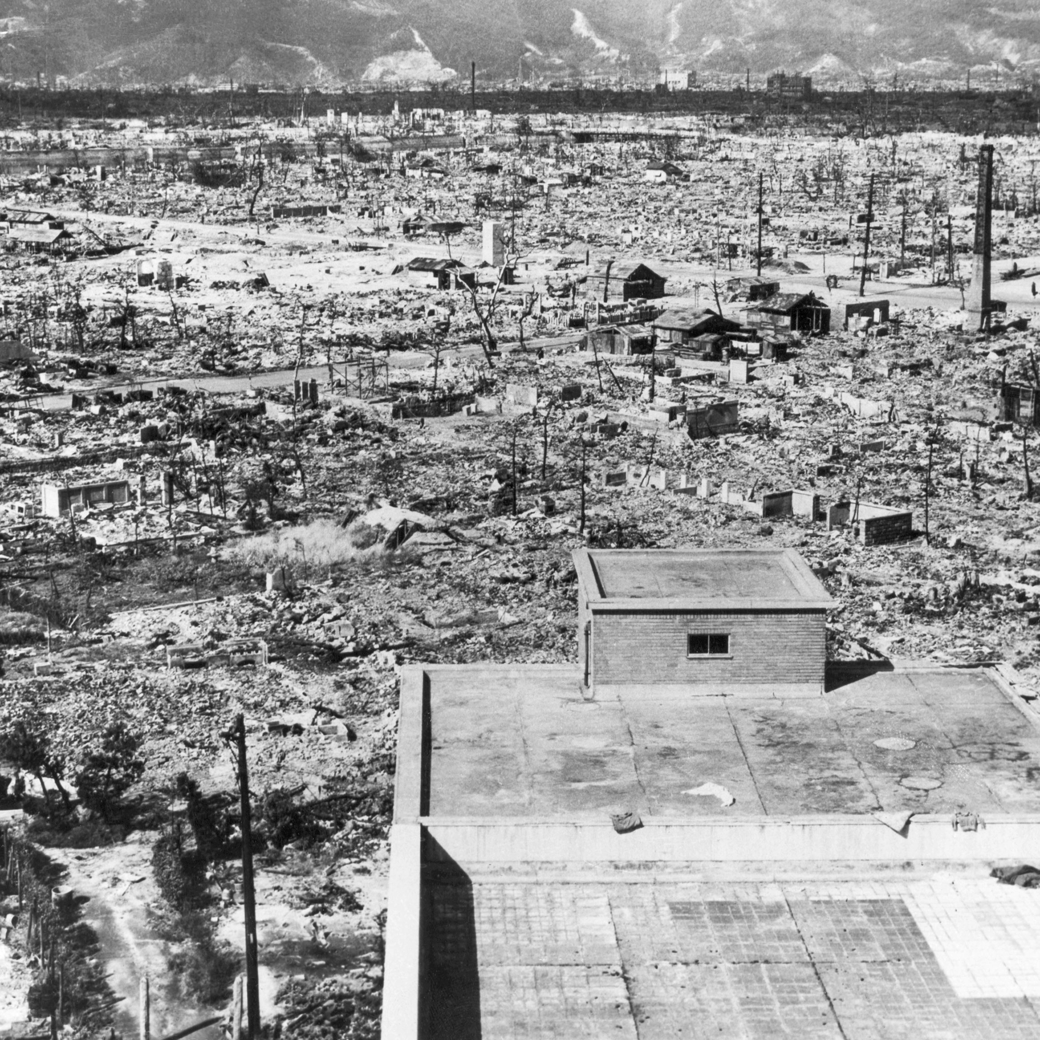 Effects of the atomic bomb on Hiroshima. View from the top of the Red Cross Hospital looking northwest. Frame buildings recently erected. 1945